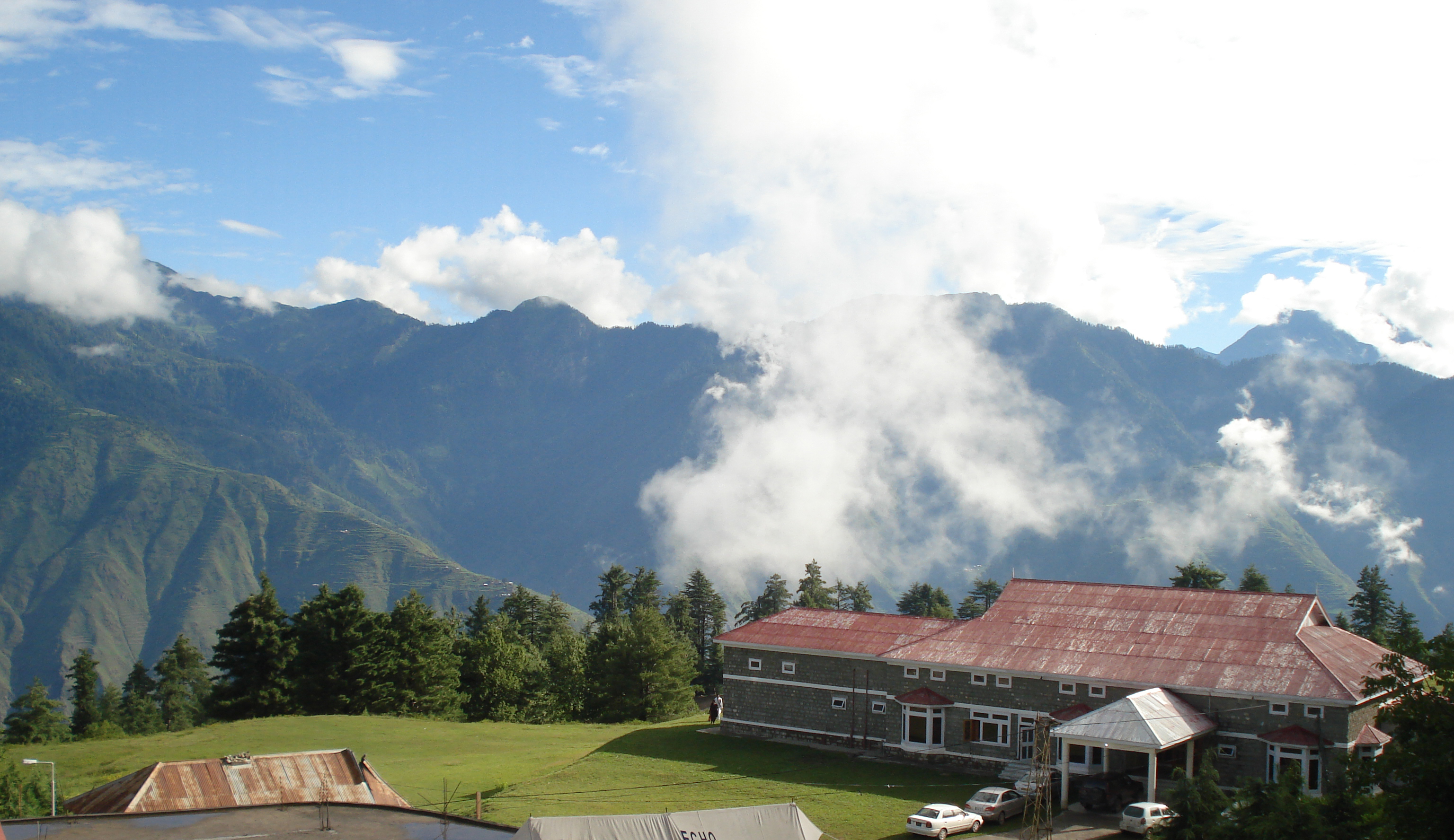 Shogran, Naran Valley